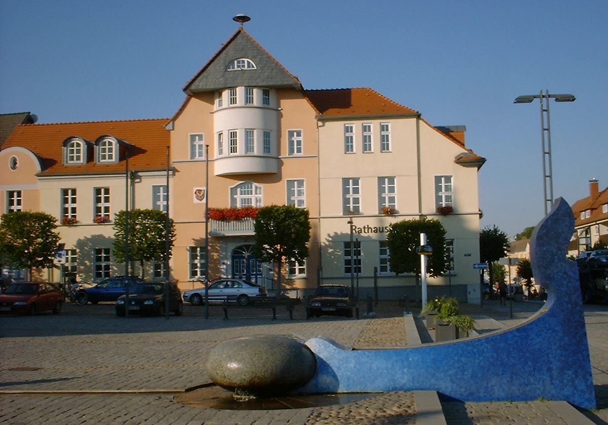 Town hall in Fürstenberg in Brandenburg, Germany